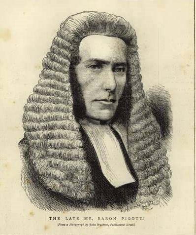 Print of Mr Baron Pigott (1813-1875) - Lord Justice